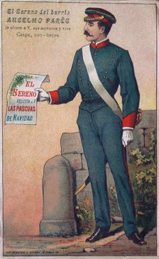 "Sereno"; Night watchman Christmas card